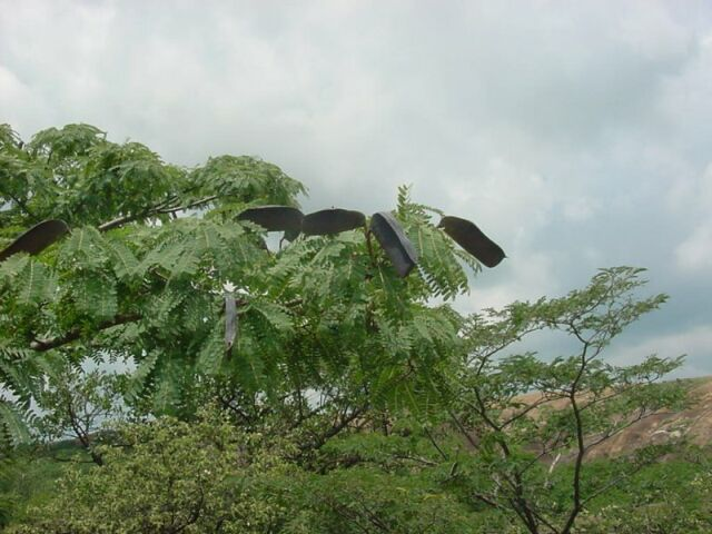 Brachystegia glaucescens in Domboshawa, Zimbabwe. Credit : Mark Hyde, From Flora of Zimbabwe web site. Mark Hyde (copyright holder) writes I am happy for the wikipedia to use this image on the terms you suggest. [gfdl] However, I don't really want wholesale commercial use of other images of ours